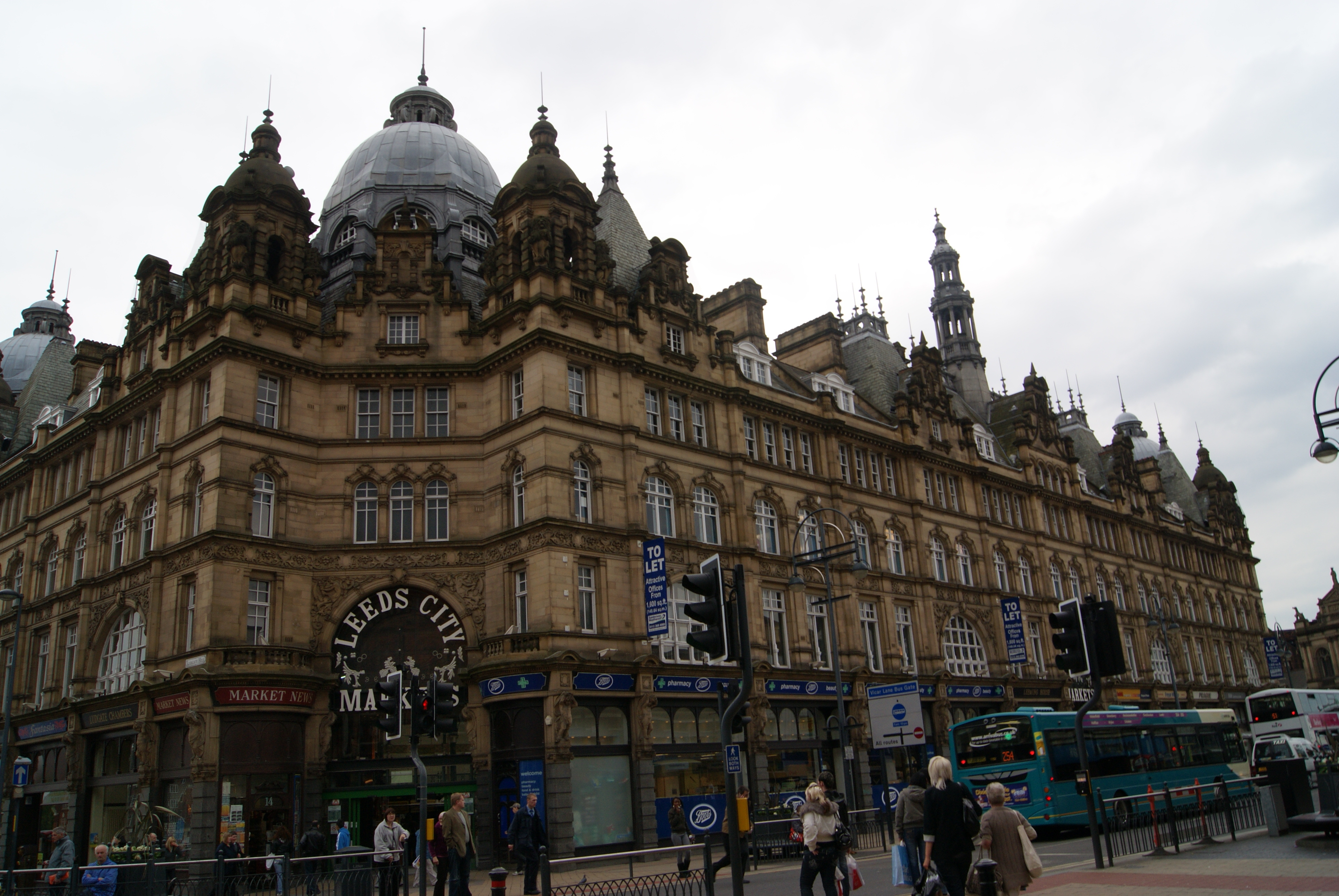 The Kirkgate Markets (as seen from Vicar Lane) in Leeds, West Yorkshire. Taken on the afternoon of Tuesday the 4th of May 2010.